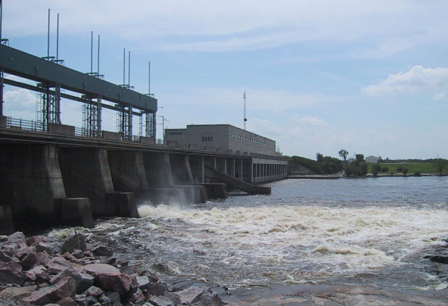 Manitoba Hydro Pine Falls Generating Station , spillway at left, powerhouse on right, taken June 2010